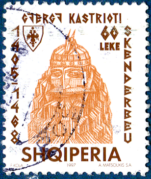 Gjergj Kastrioti Skanderbeg